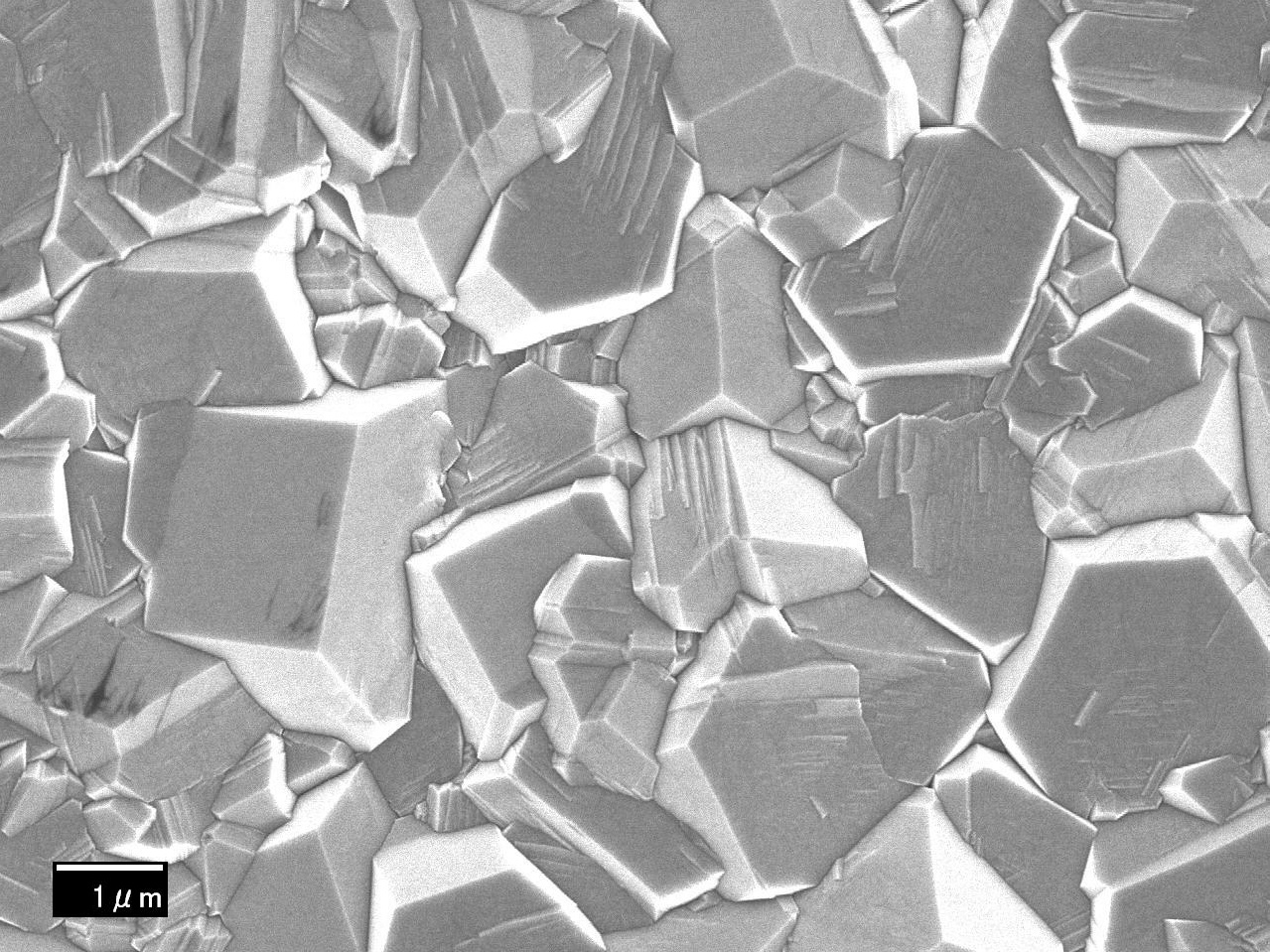 This is the SEM(Scanning Electron Microscopy) image of the diamond film grown on seed-processed Si(100) substrate by hot filament chemical vapor deposition. This diamond was synthesized in 99%H2 and 1.0%CH4 gas mixture. The deposition times were 2 hours.